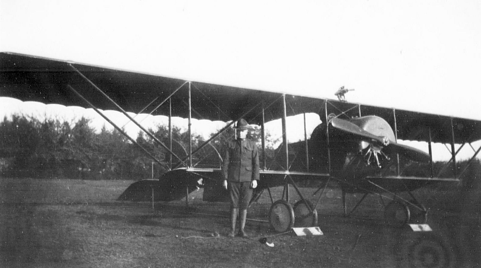 800th Aero Squadron - Flight B Caudron G.3 with Private McGowan, Wireless Operator